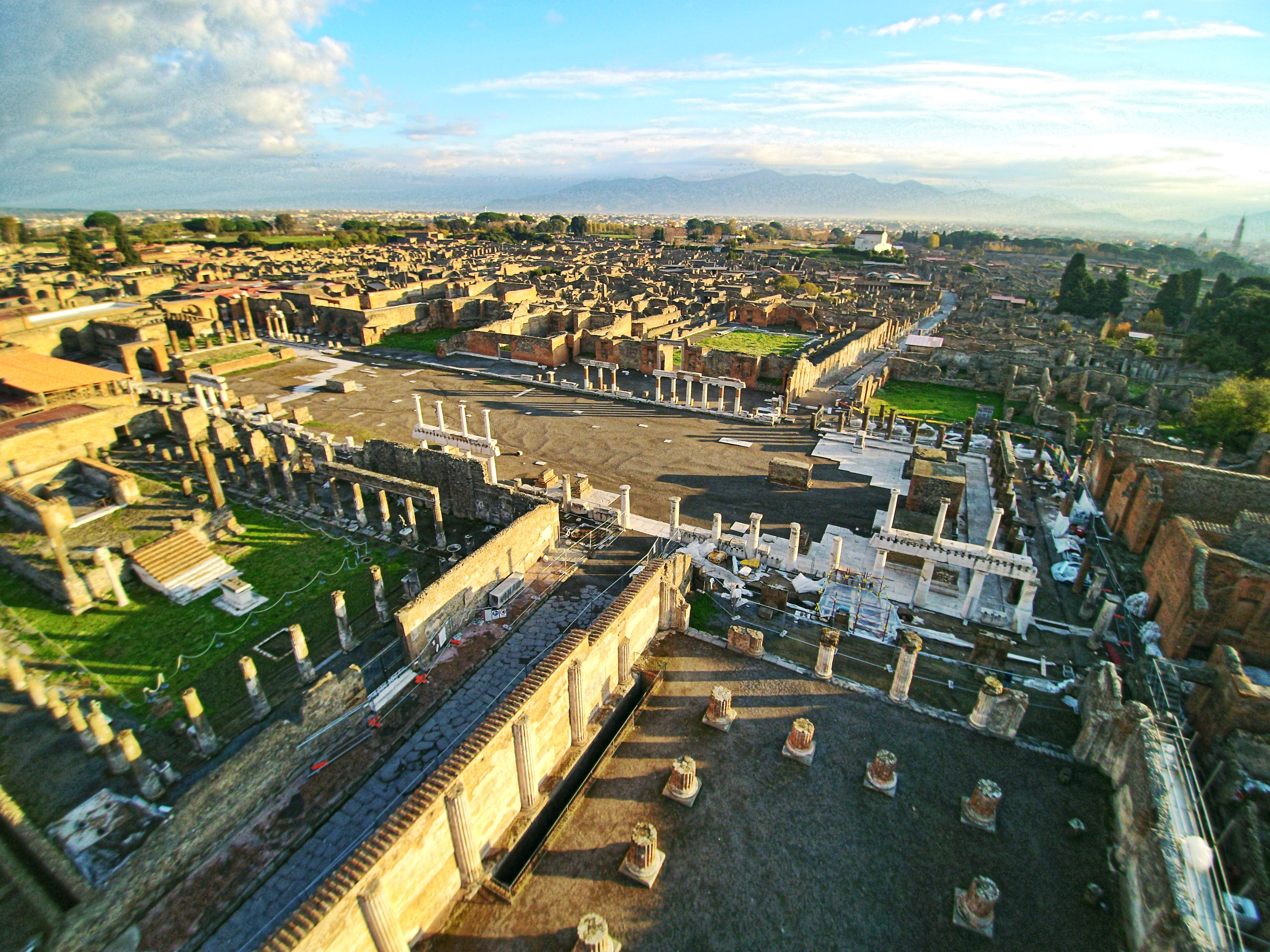 Forum of Pompeii, seen from above the Basilica with a drone